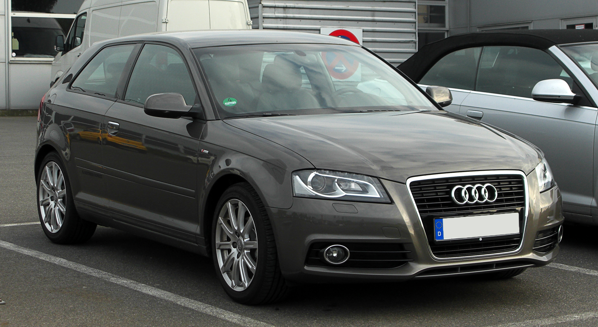 Audi A3 1.2 TFSI Ambition S-line (8P, 3. Facelift)